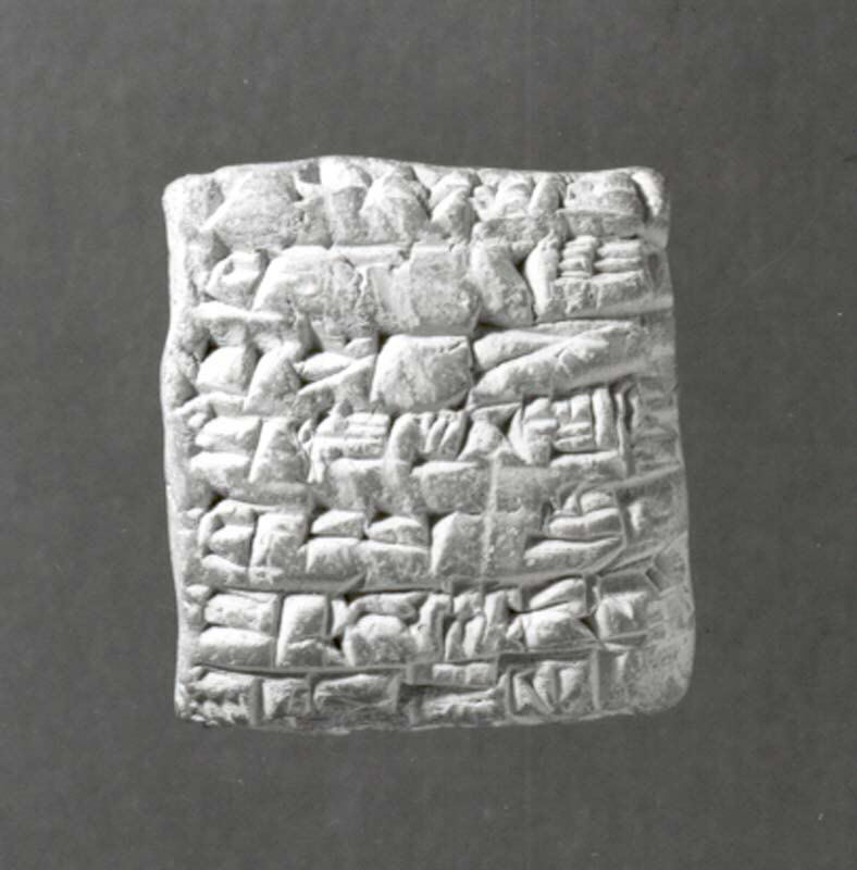 Neo-Sumerian; Cuneiform tablet; Clay-Tablets-Inscribed